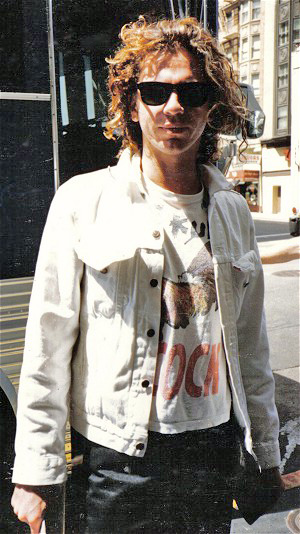 Subject: Michael Hutchence of INXS Date: August, 1986 Place: San Francisco, California, USA Photographer: Andwhatsnext Original 35mm photograph scanned Credit: Copyright (c) 1986 by Nancy J Price